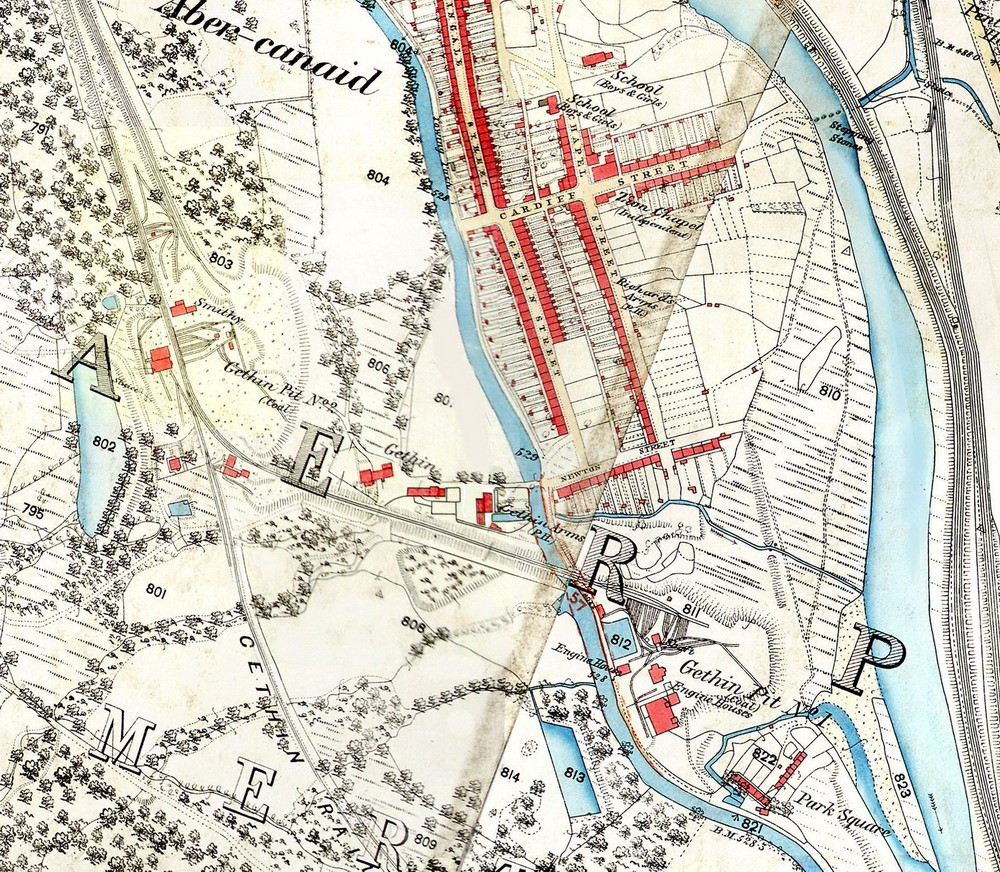 Arial Map of the Pit site